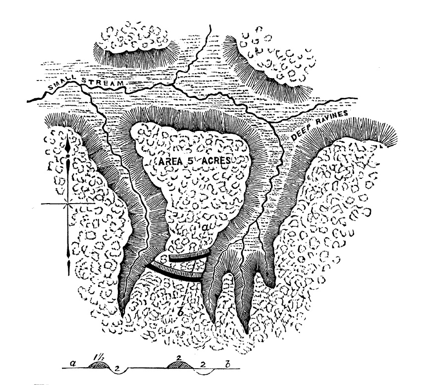 A semi-permanent encampment of the Woodland people or the Whittlesey culture, located about the modern intersection of Broadway Avenue and Aetna Road in Cleveland, Ohio, in the United States. Drawn by Charles Whittlesey in 1867. He described the encampment as a "fort", although later archeological evidence indicates it and others like it in northern Ohio were not meant for defense.